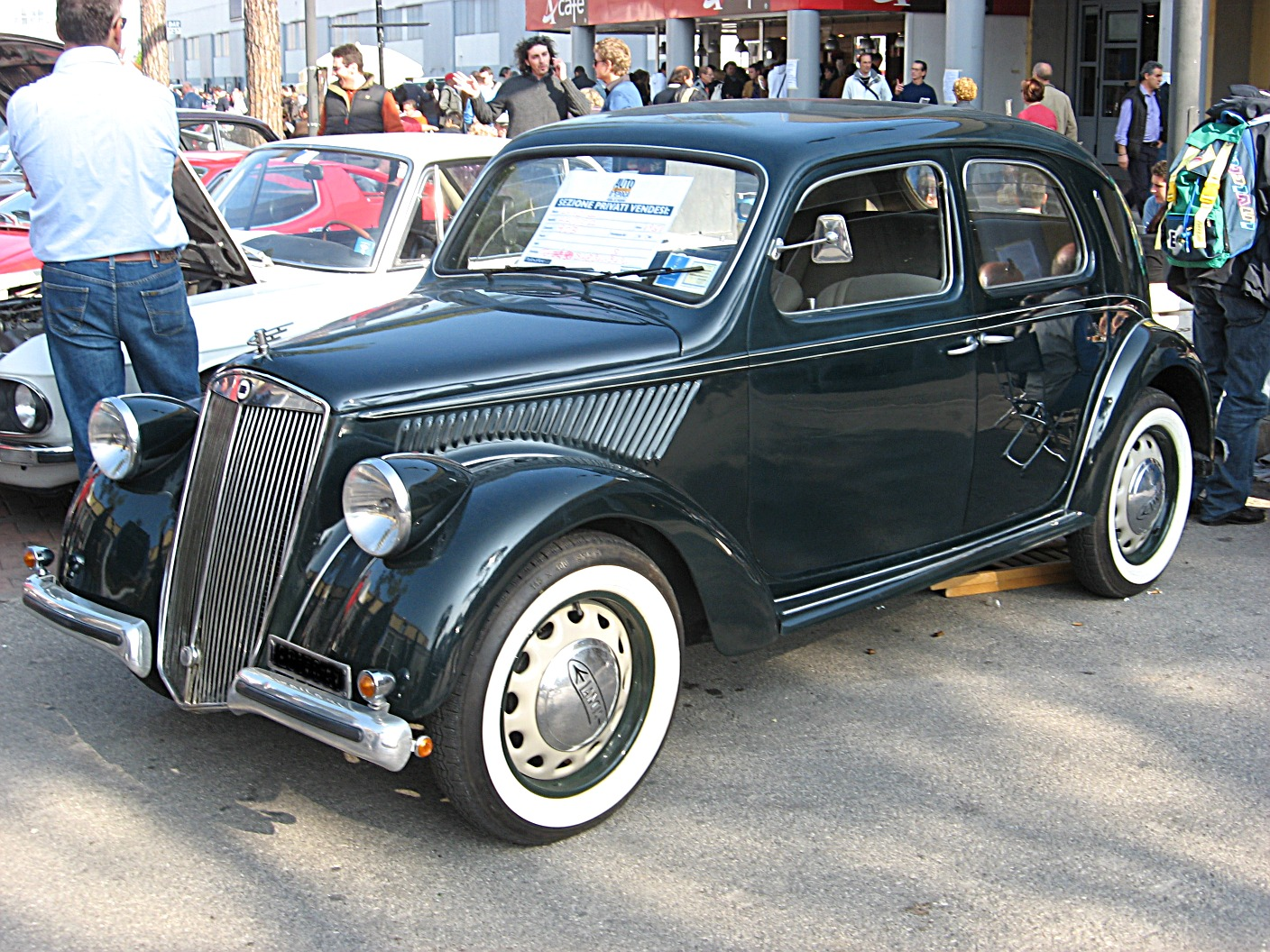 Lancia Ardea MK4 (1949-1952)